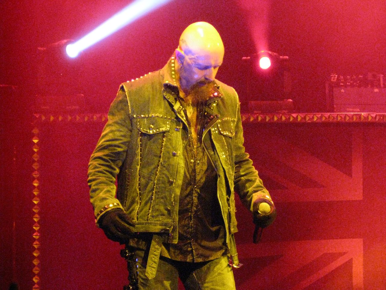 Rob Halford live in concert at Merriweather Post Pavilion in Columbia MD, USA